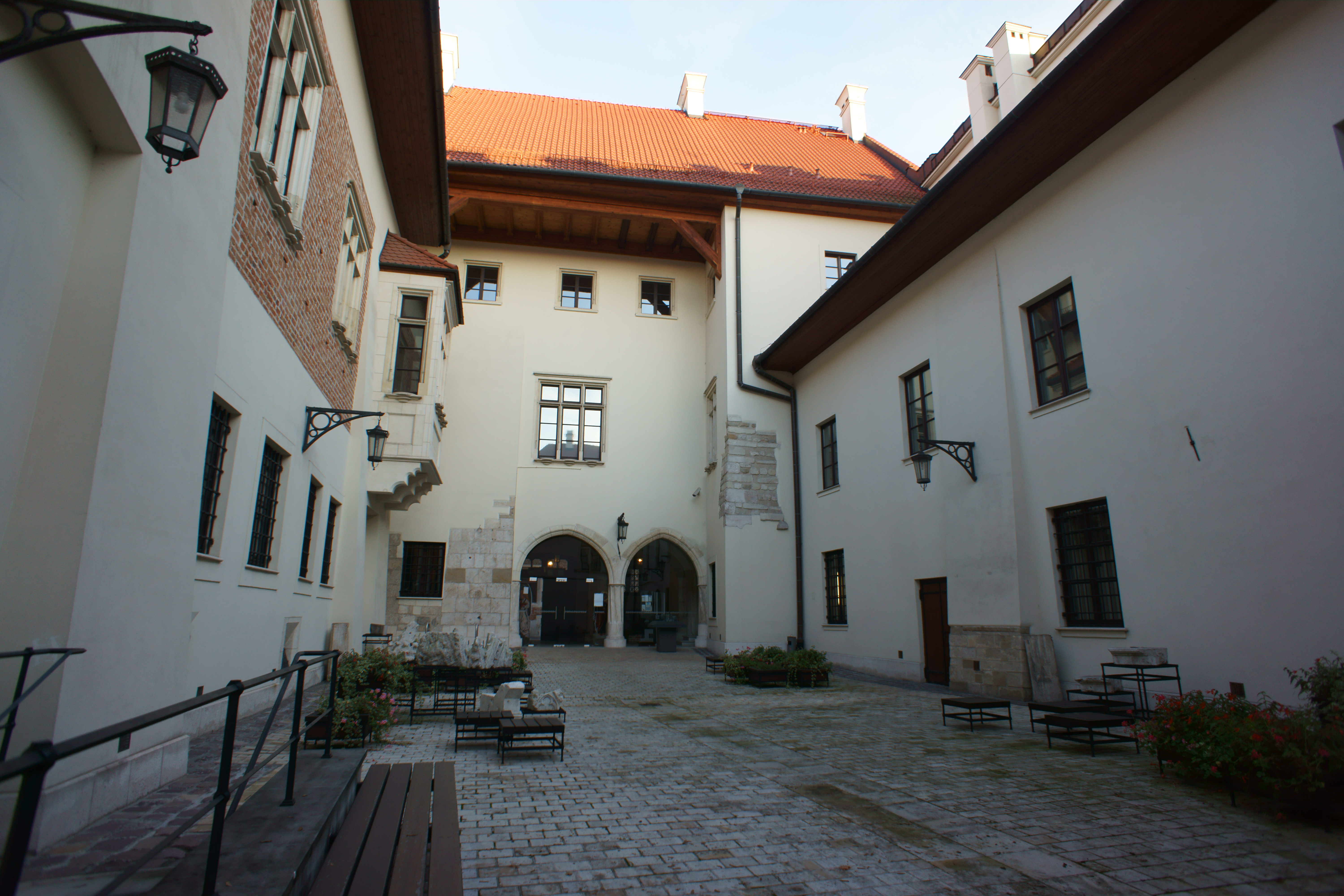 palace 17 Kanonicza Street in Kraków